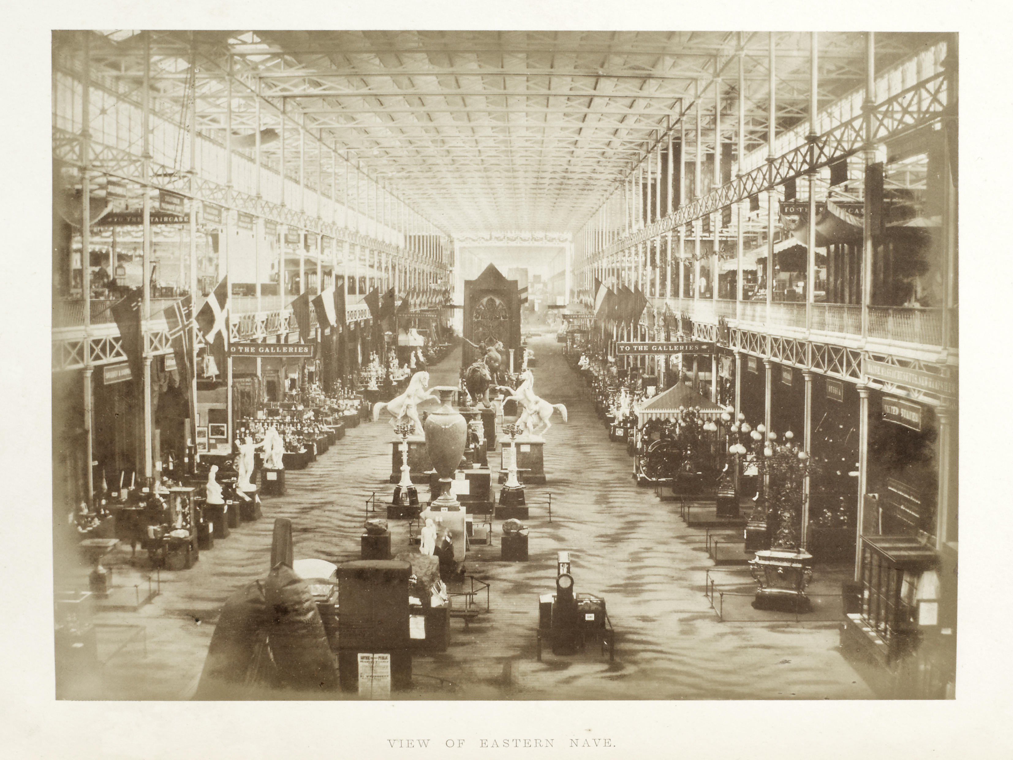 Mounted Calotype depicting a scene from the Great Exhibition of 1851. From Henry Fox Talbot's presentation report, Spicer Brothers, Wholesale Stationers, W. Clowes & Sons, Printers, 1852.